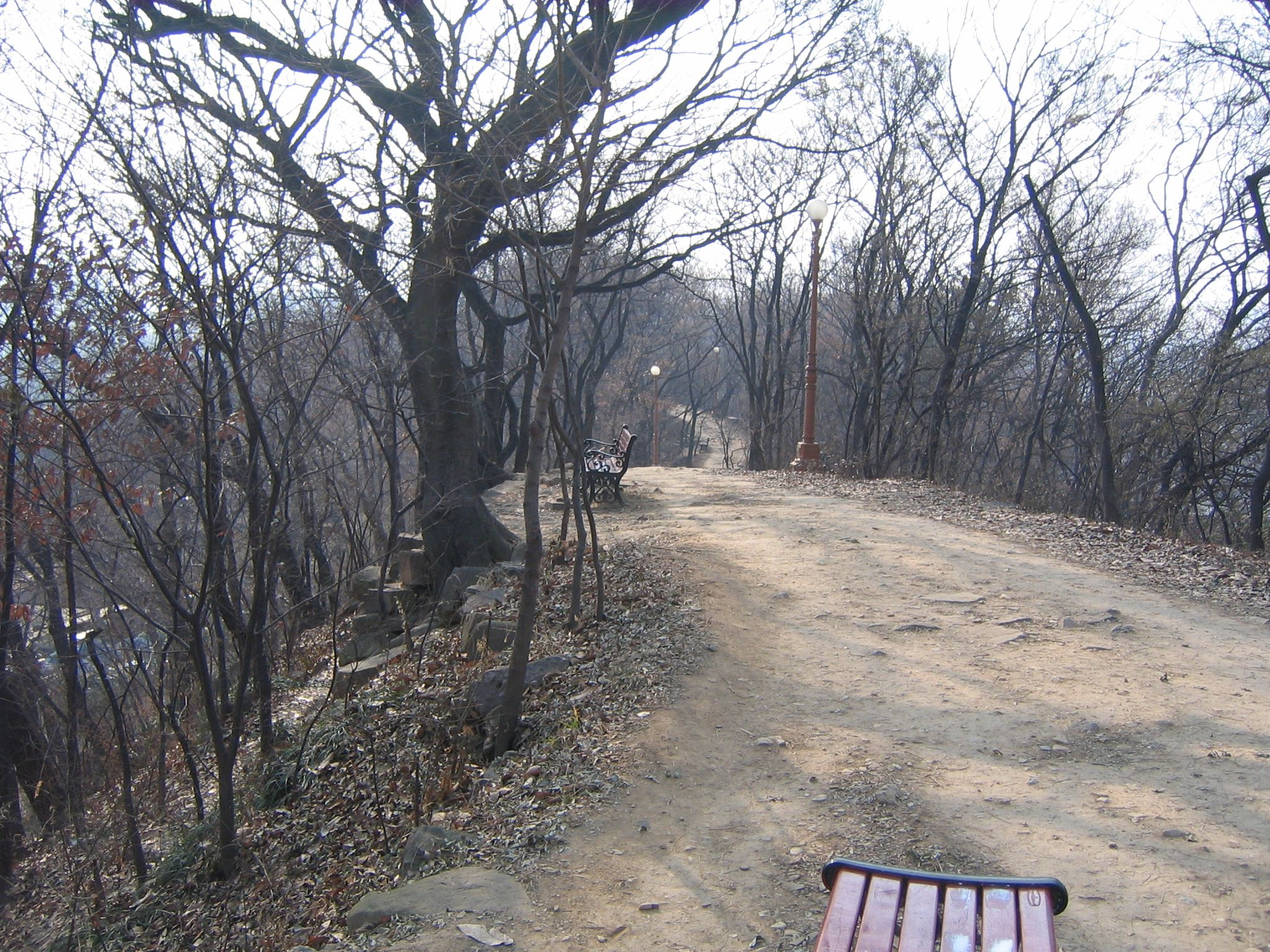 Old fortress wall of Daegu in Dalseong Park.